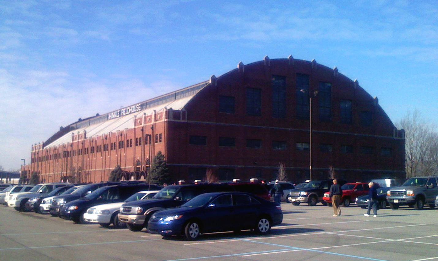 The Exterior of Hinkle Fieldhouse